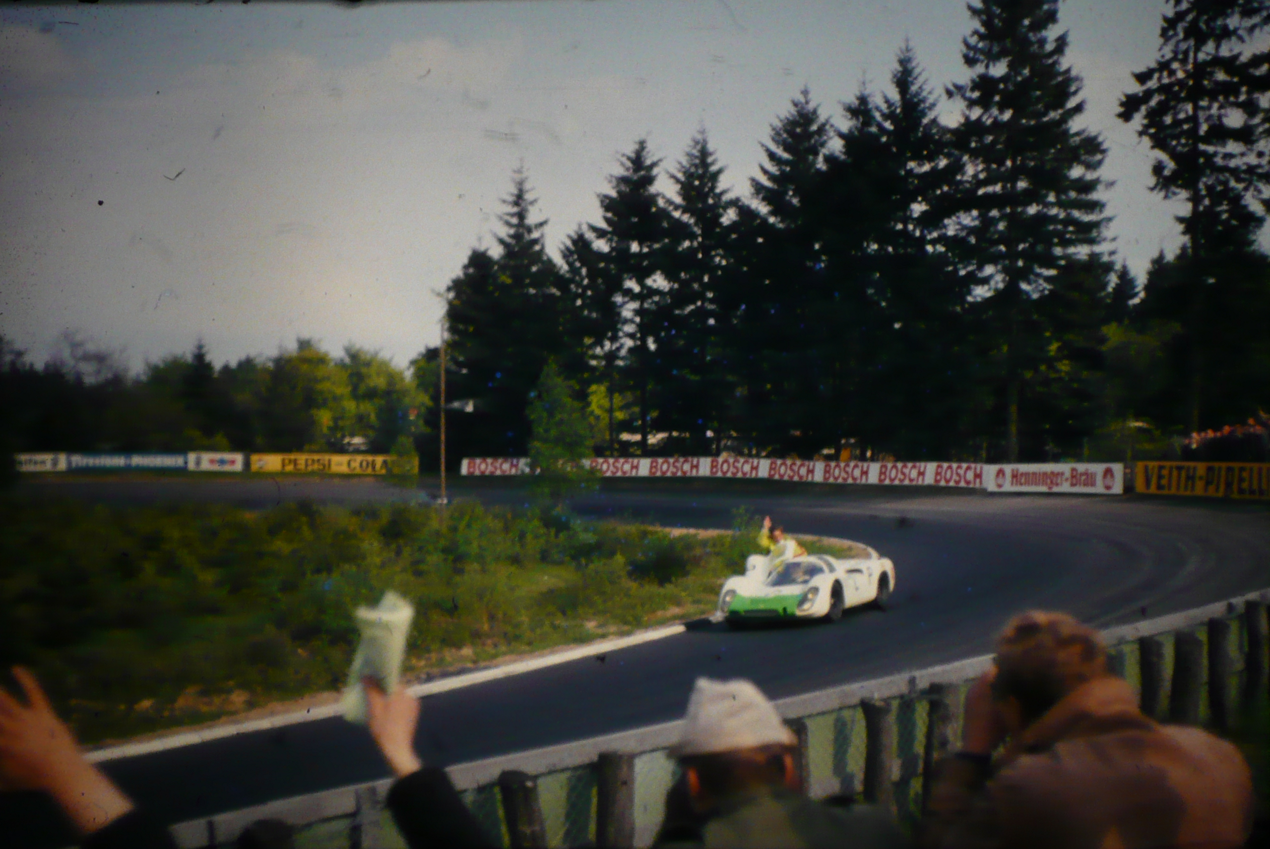 1000 km race Nürburgring 1968, winner Jo Siffert in Porsche 908 Coupé